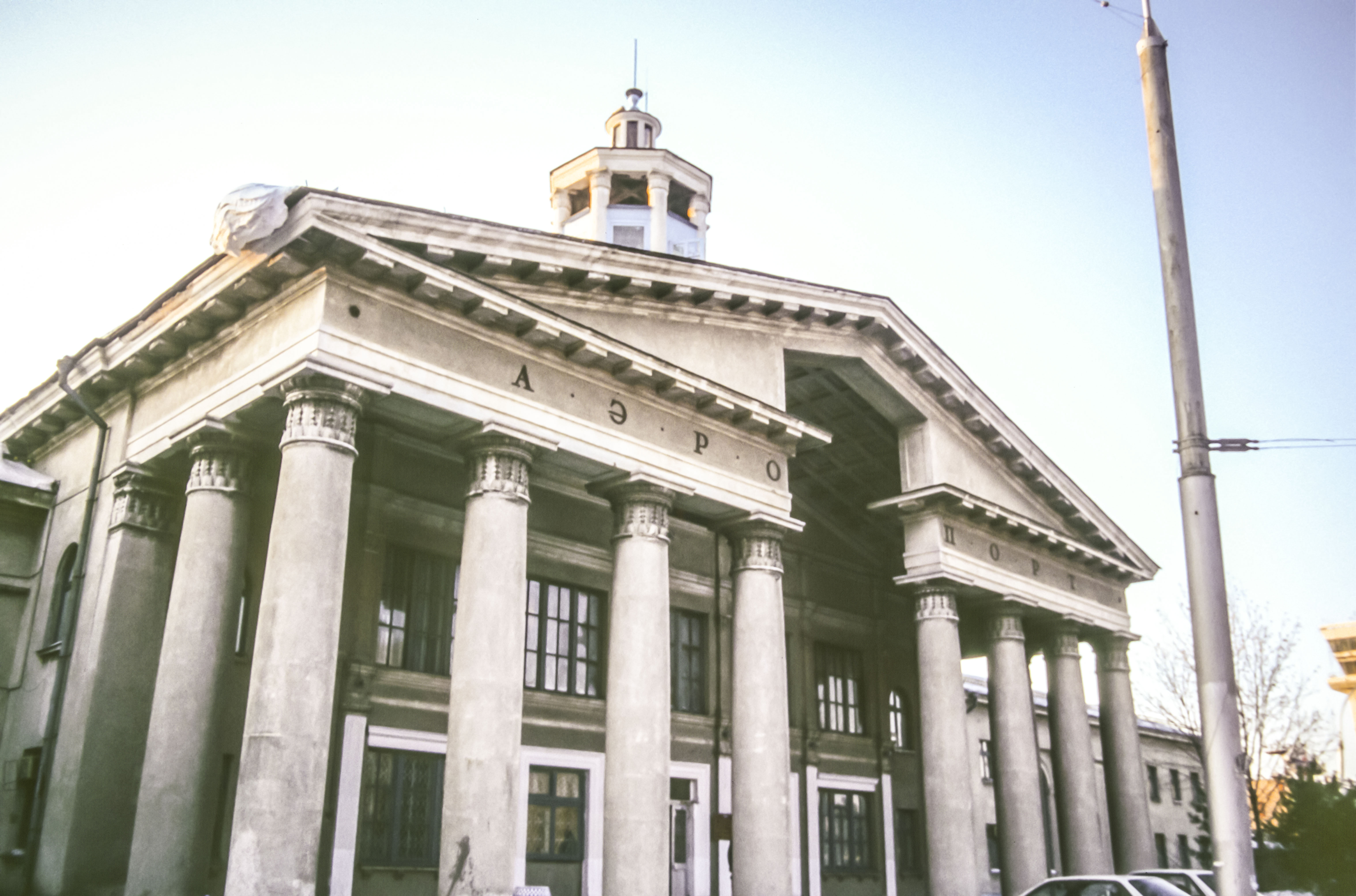 Older part of Khabarovsk airport